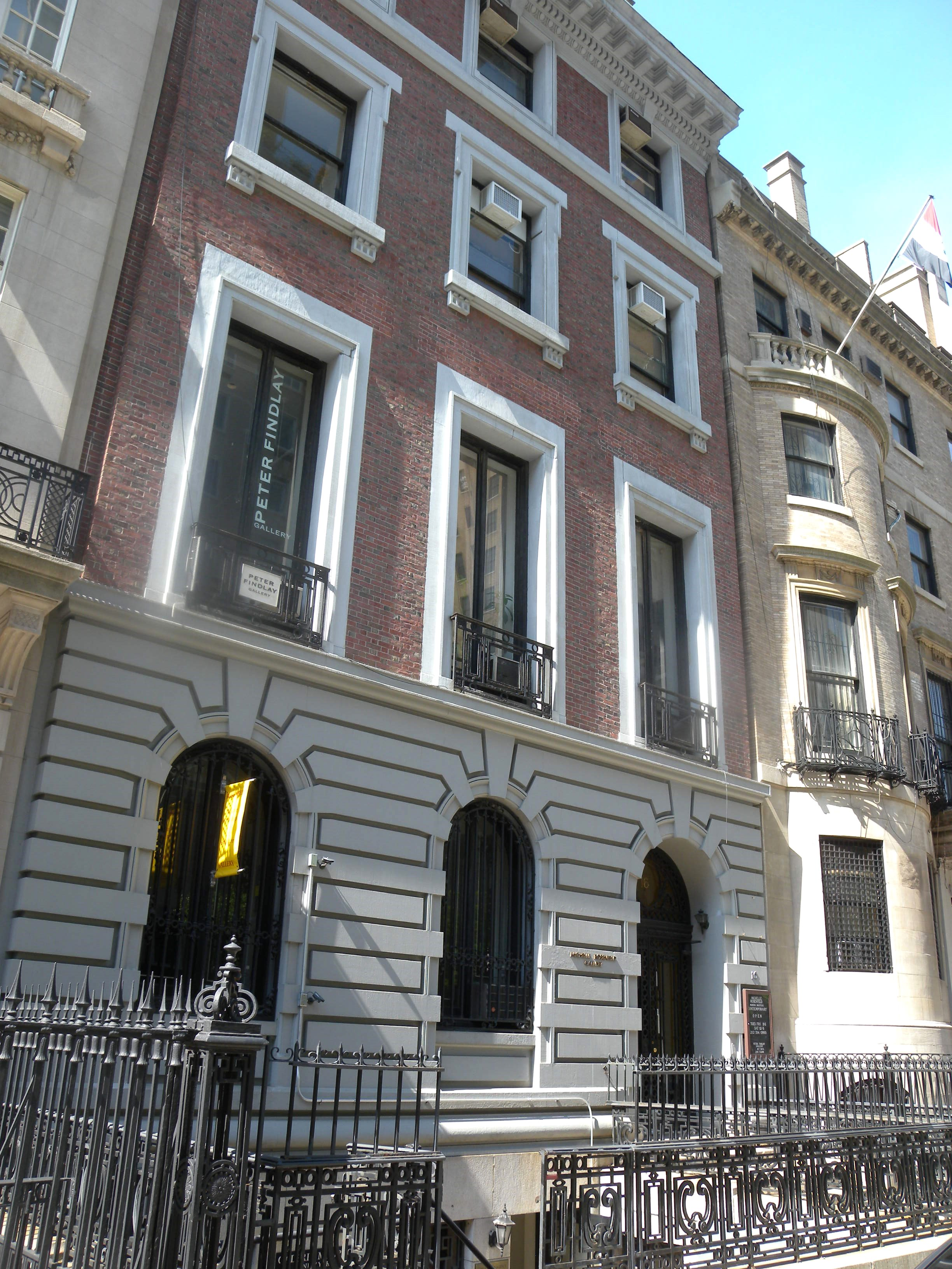 Looking west at art gallery on a sunny late morning.